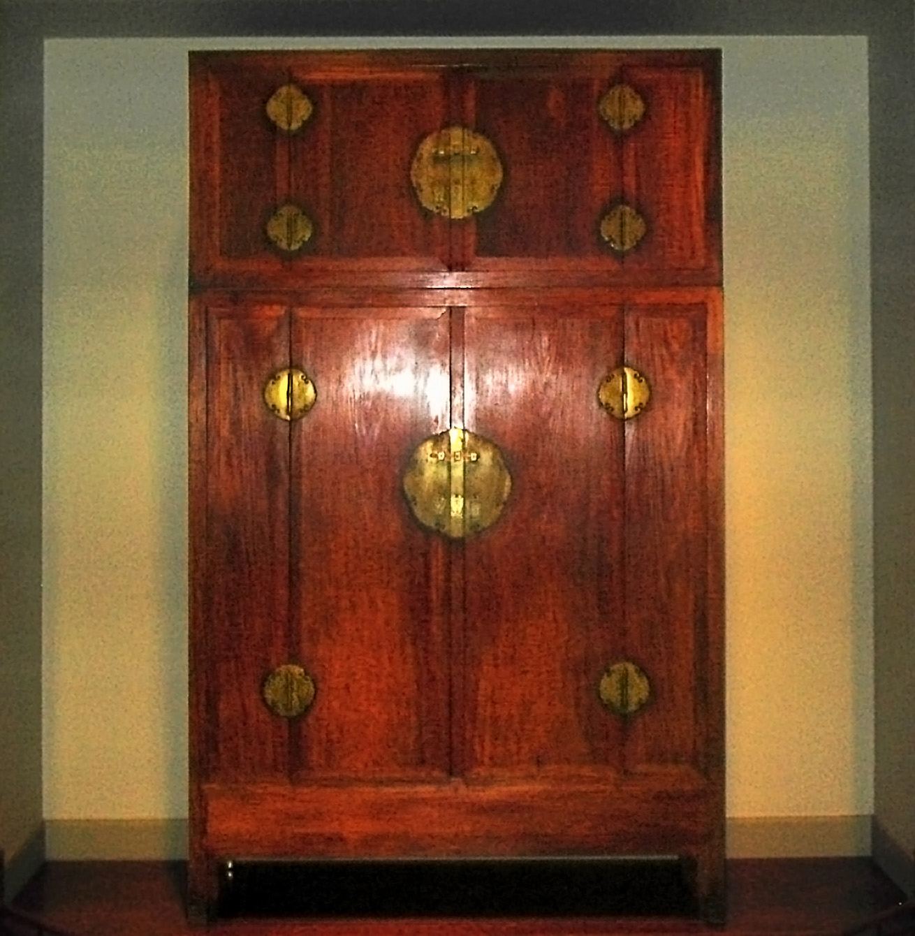 A compound wardrobe made of huanghuali rosewood; dated c. 1550-1600, during the Chinese Ming Dynasty. From the Freer and Sackler Galleries of Washington D.C. Author: User:PericlesofAthens Date: August 3, 2007